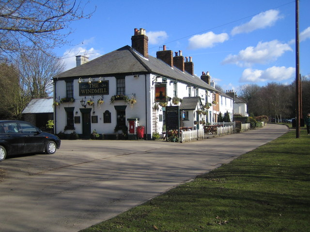 Chipperfield: The Windmill Public House. Located on Windmill Hill.